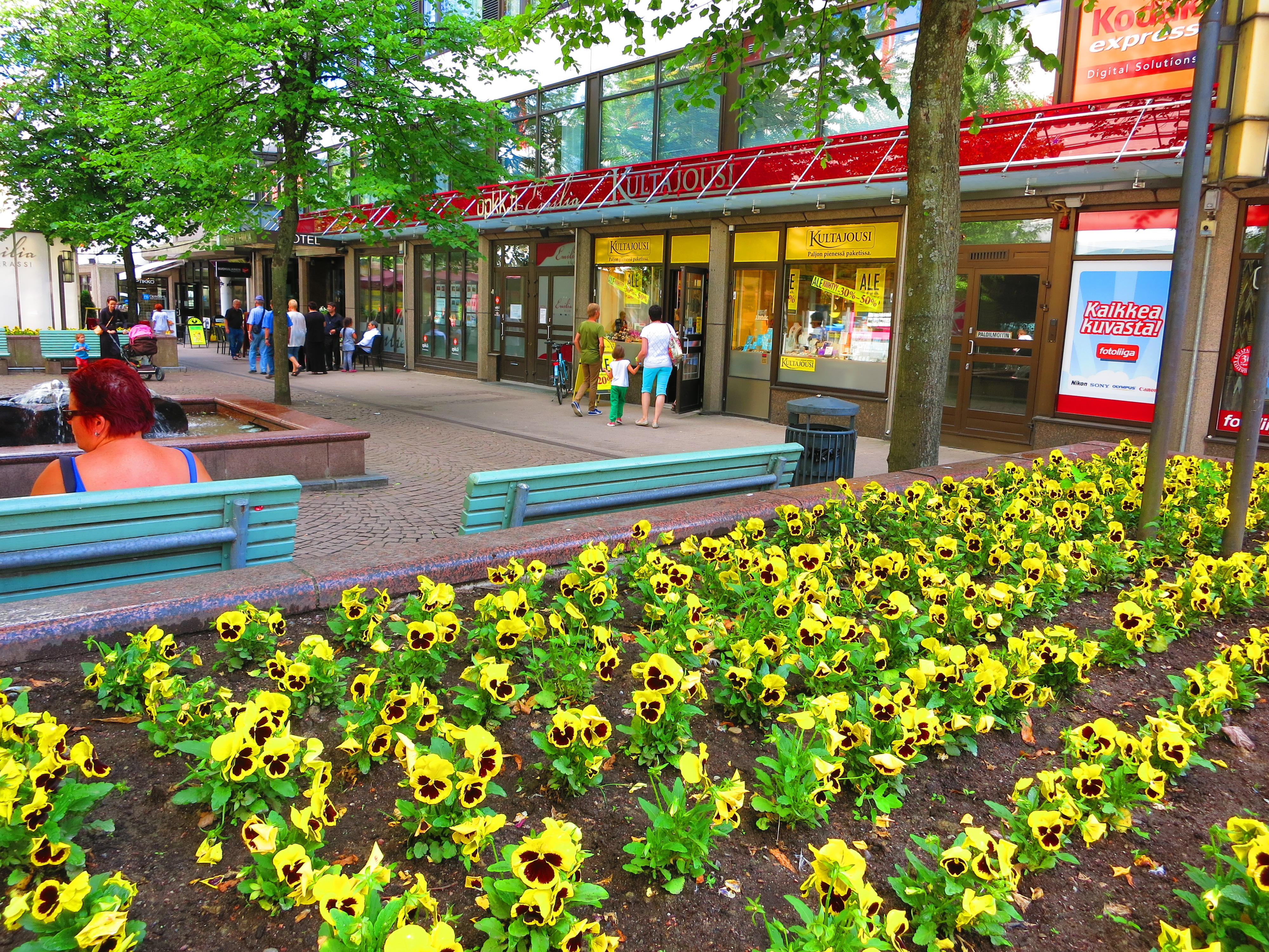 Raatihuoneenkatu Street in downtown of Hämeenlinna (Finland)